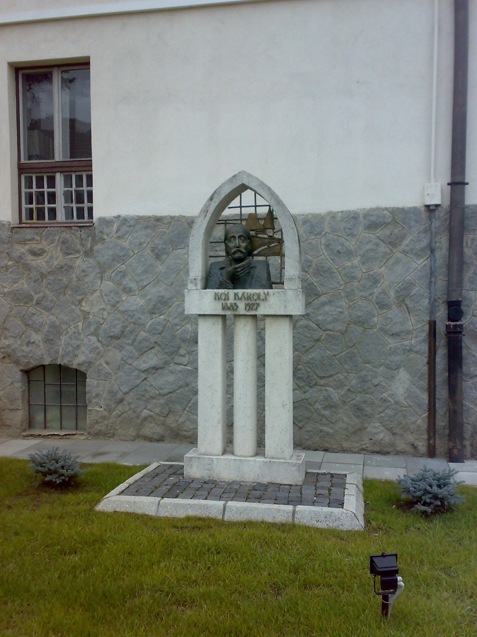 The statue of Kós Károly in Marosvásárhely.